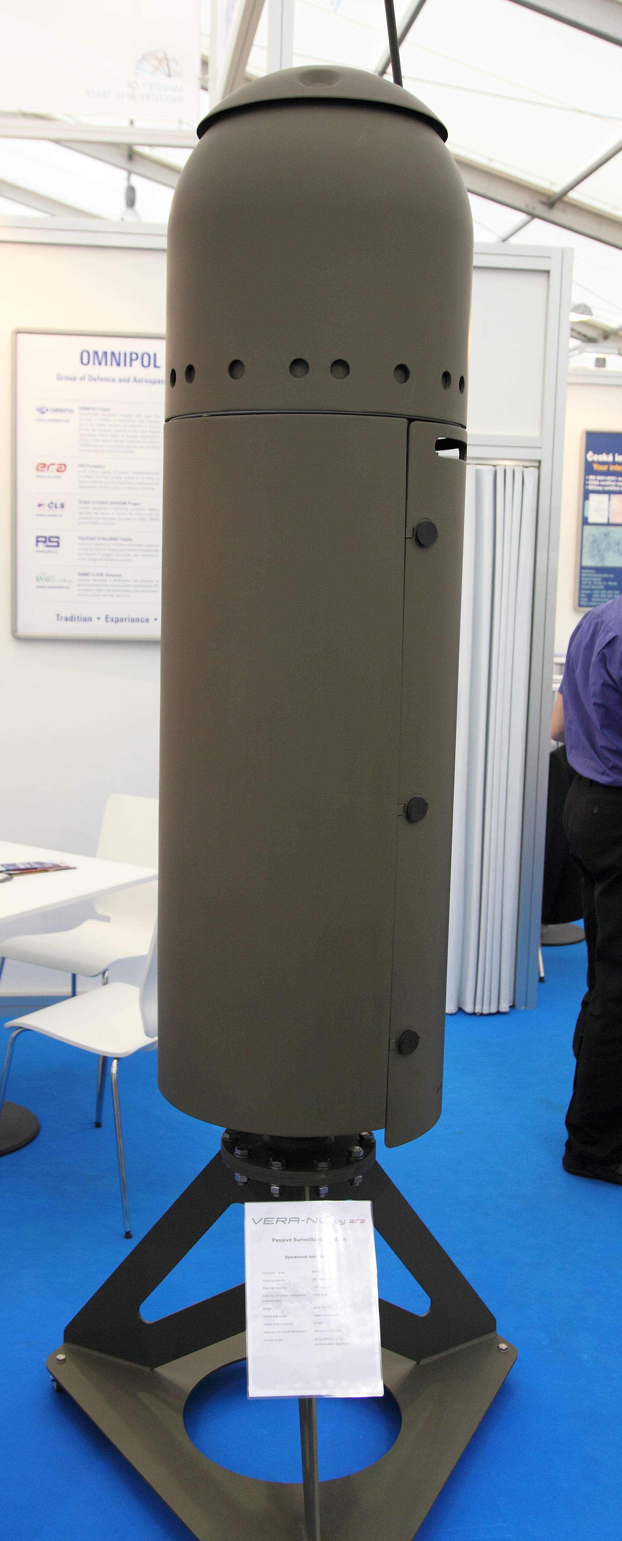 ILA Berlin Air Show 2012 Vera-NG by era: Passive Surveillance System operational specifications frequency range 88 MHz - 18 GHz tracking capacity - 200 real time tracks tracking capability - 3 dimensional antenna unit power consumption (central / side) - 210 / 130 W range - up to 400 km tracking accuracy - radar comparable target library capacita - 10 000 antenna unit overall dimensions - 500 mm x 1720 mm overall weight - 85 kg antenna, 15 kg communication equipment (era; OMNIPOL) VERA-NG Mobile Long-range Passive Surveillance System (scale 1:35)